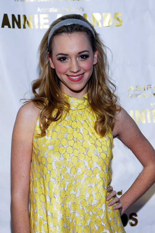 Andrea Bowen at the 2006 Annie Awards red carpet at the Alex Theatre in Glendale, California.